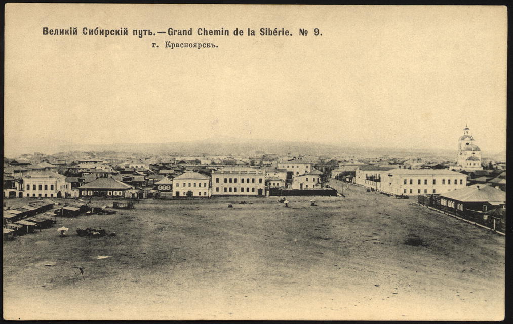 Krasnoiarsk